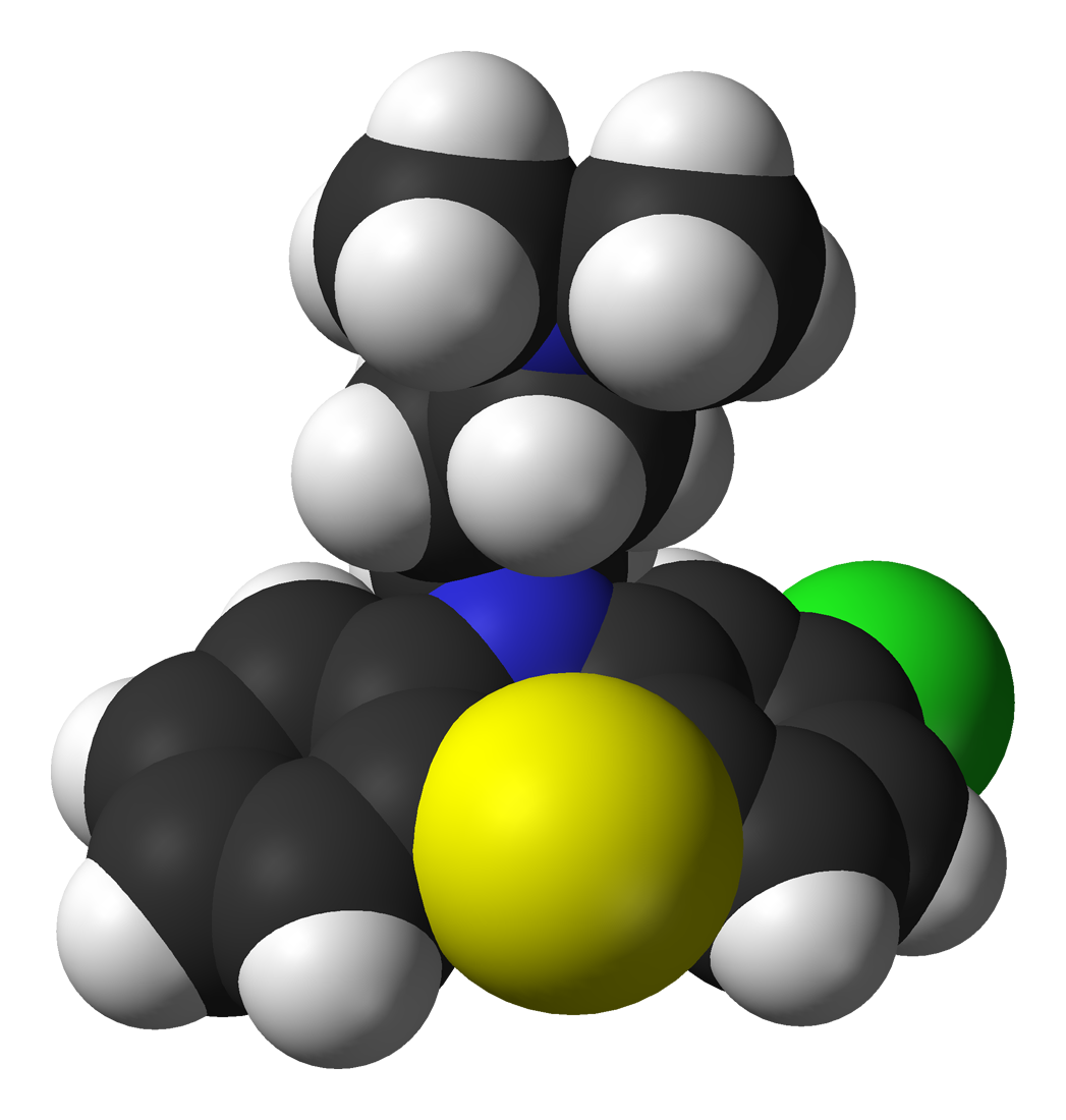 Space-filling model of the chlorpromazine molecule. X-ray diffraction data from H. S. Yathirajan, M. A. Ashok, B. Narayana Achar and M. Bolte (April 2007). "Chlorpromazinium picrate". Acta. Cryst. 'E63' (4): o1795-o1797.